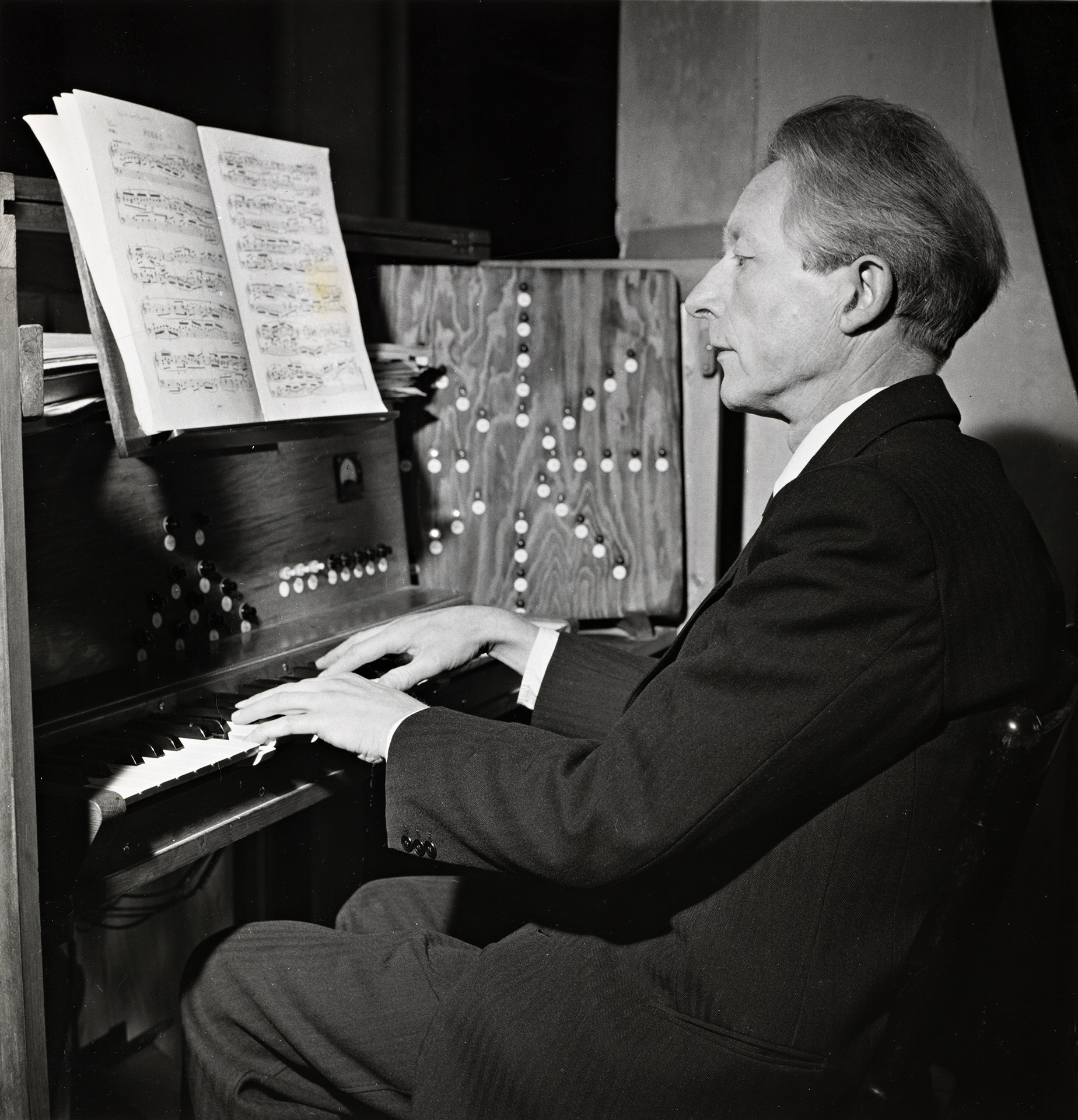 Beskrivelse / Description: Eivind Groven var komponist og hardingfelespiller. Dato / Date: 1953 Sted / Place: Oslo, Trefoldighetskirken Fotograf / Photographer: Ukjent/Billedsentralen Digital kopi av original / Digital copy of original: s/h papirpositiv Eier / Owner Institution: Nasjonalbiblioteket / National Library of Norway Lenke / Link: Bildesignatur / Image Number: blds_06383